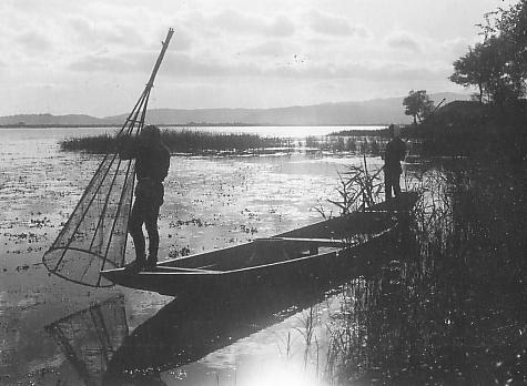 Ogura-Ike